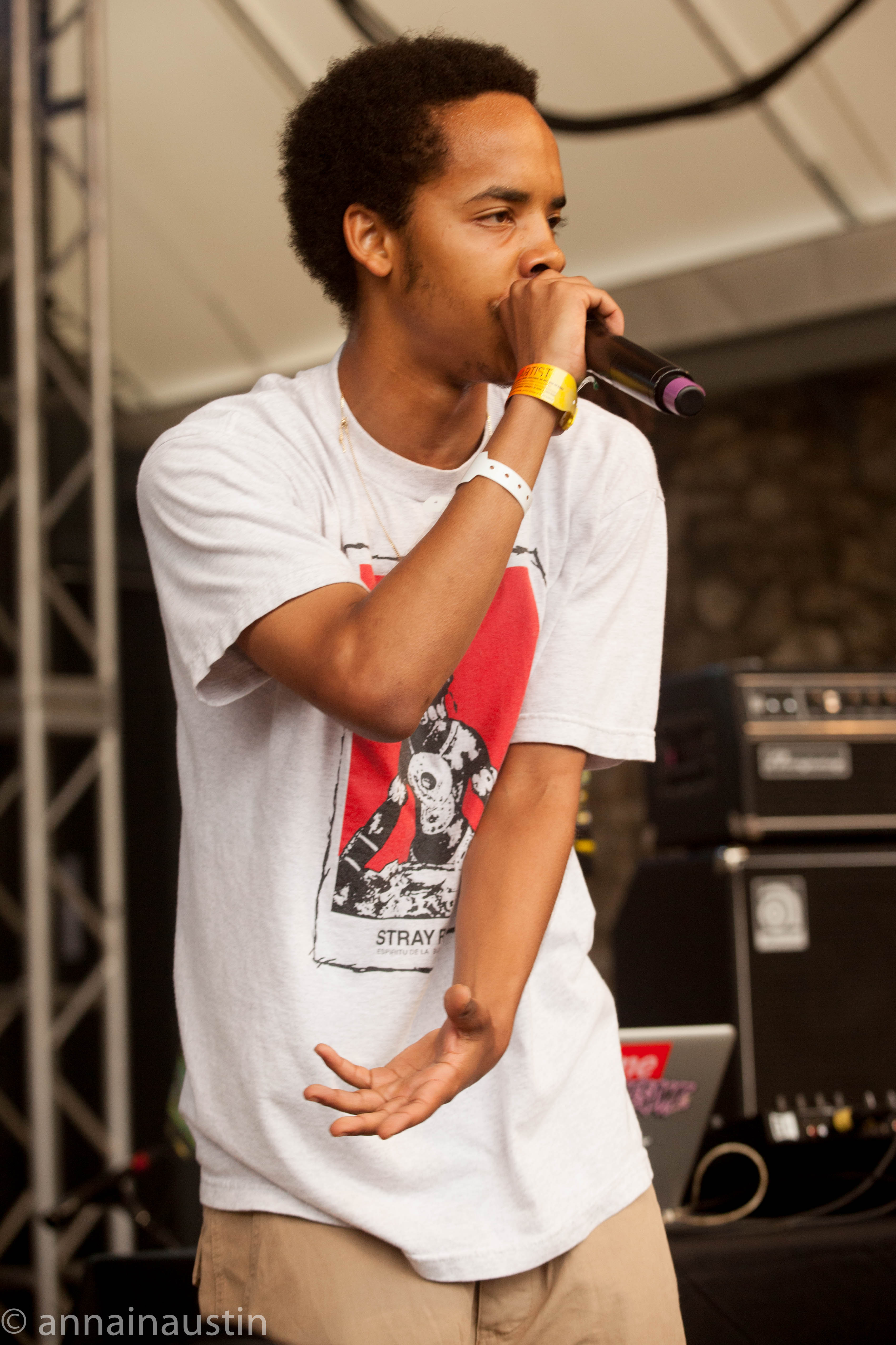 Earl Sweatshirt set at the SPIN party SXSW 2015 Austin, Texas -6190.jpg